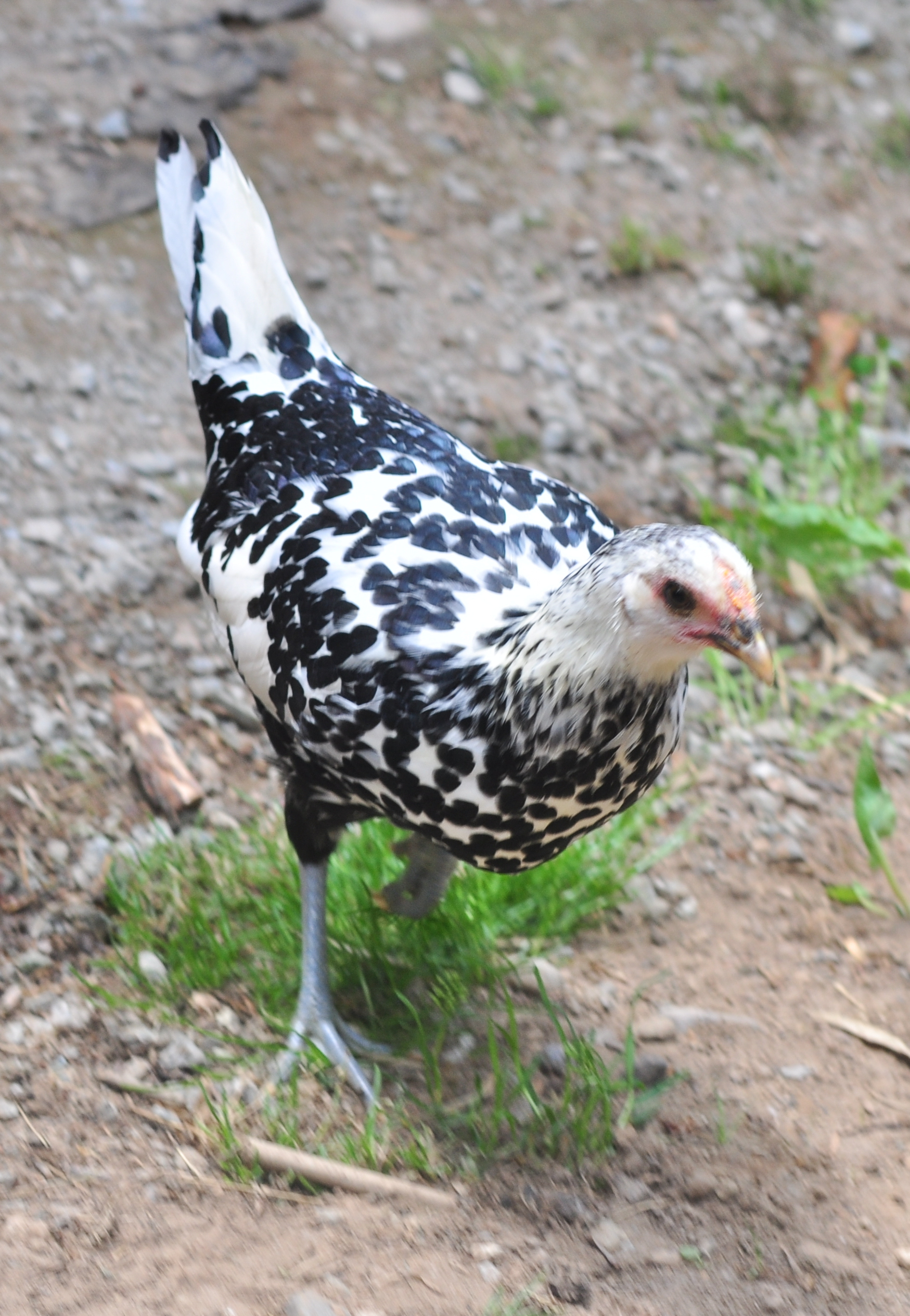 Silver Spangled Hamburg pullet